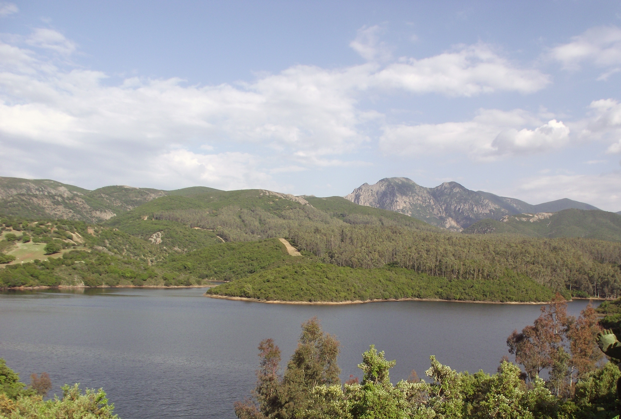 The Bau Pressiu artifical lake, made by the homonymous dam, between Siliqua and Nuxis, Sardinia, Italy